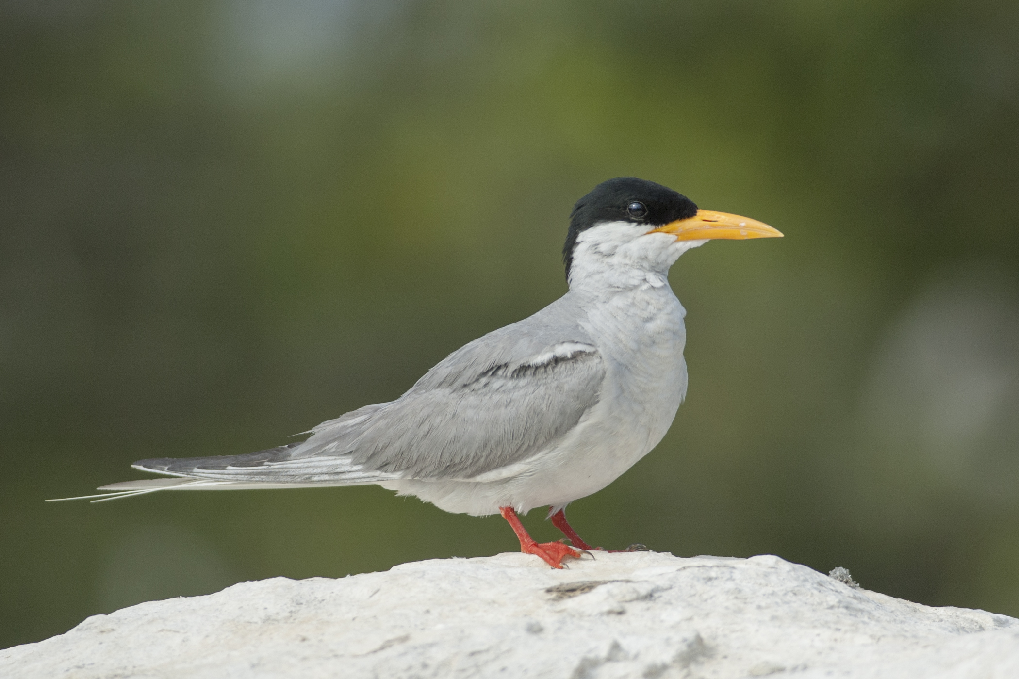 River Tern in Ranganathittu Bird Sanctuary near Mysore, India.